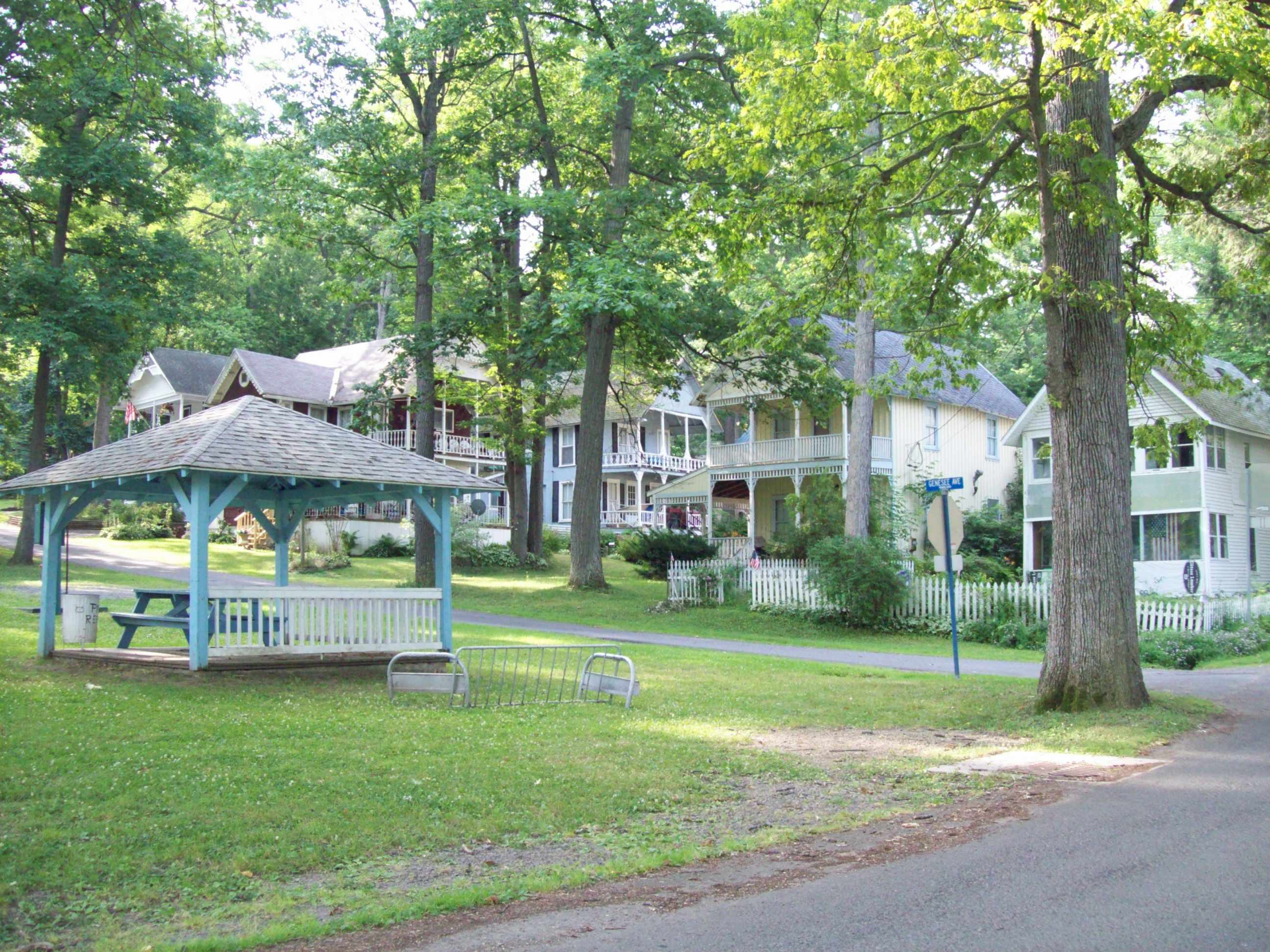 Silver Lake Institute Historic District, Perry, NY, July 2011N